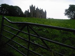 Balintore Castle , Taken by Gareth Wimpenny